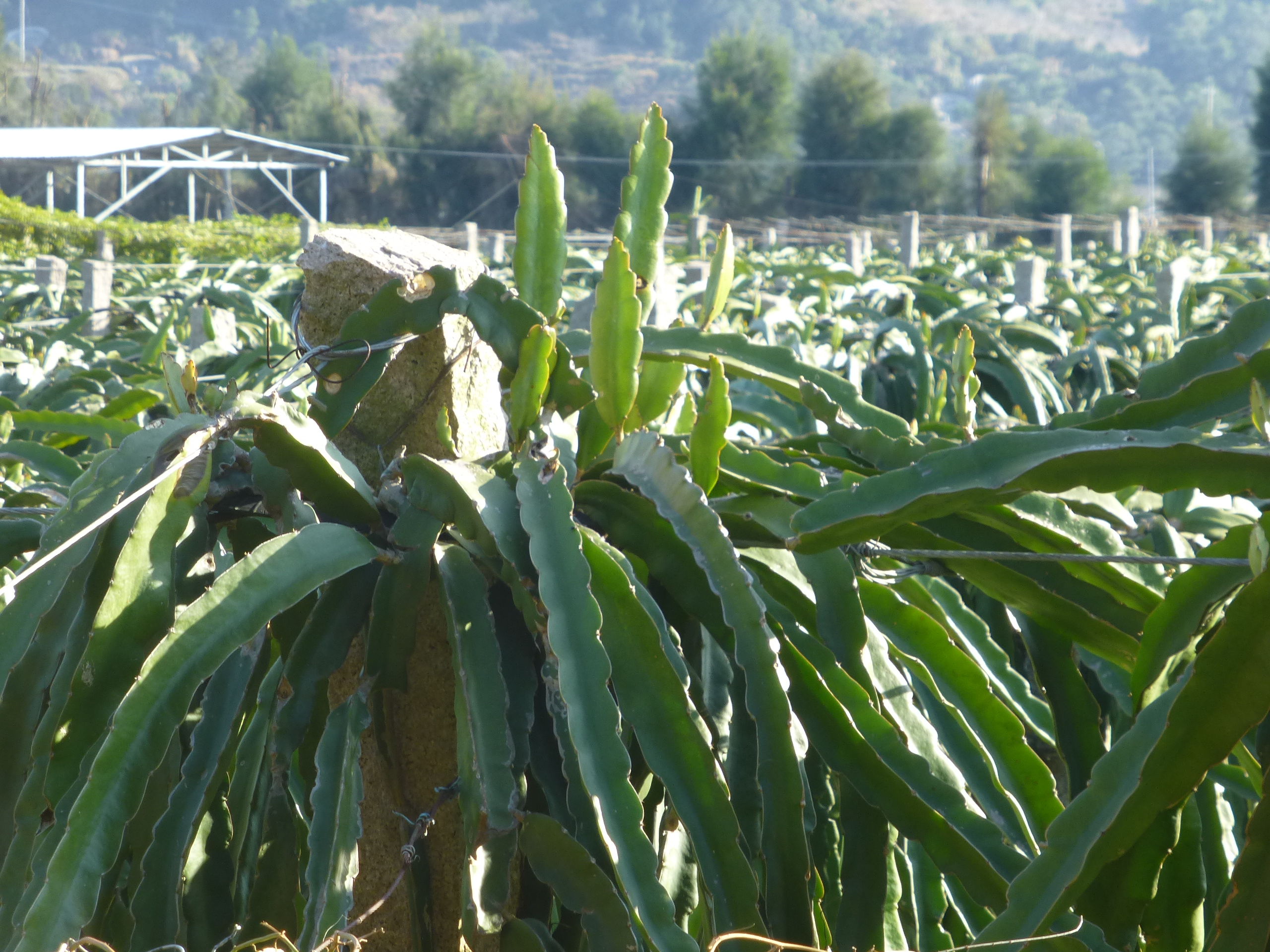 The farm of the Yangguang Red-flesh Dragon Fruit Agricultural Cooperative Society, east of Dongdai Town, Lianjiang County, Fujian